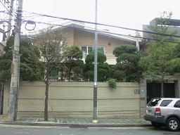 Embassy of the Cote d'Ivoire in Seoul